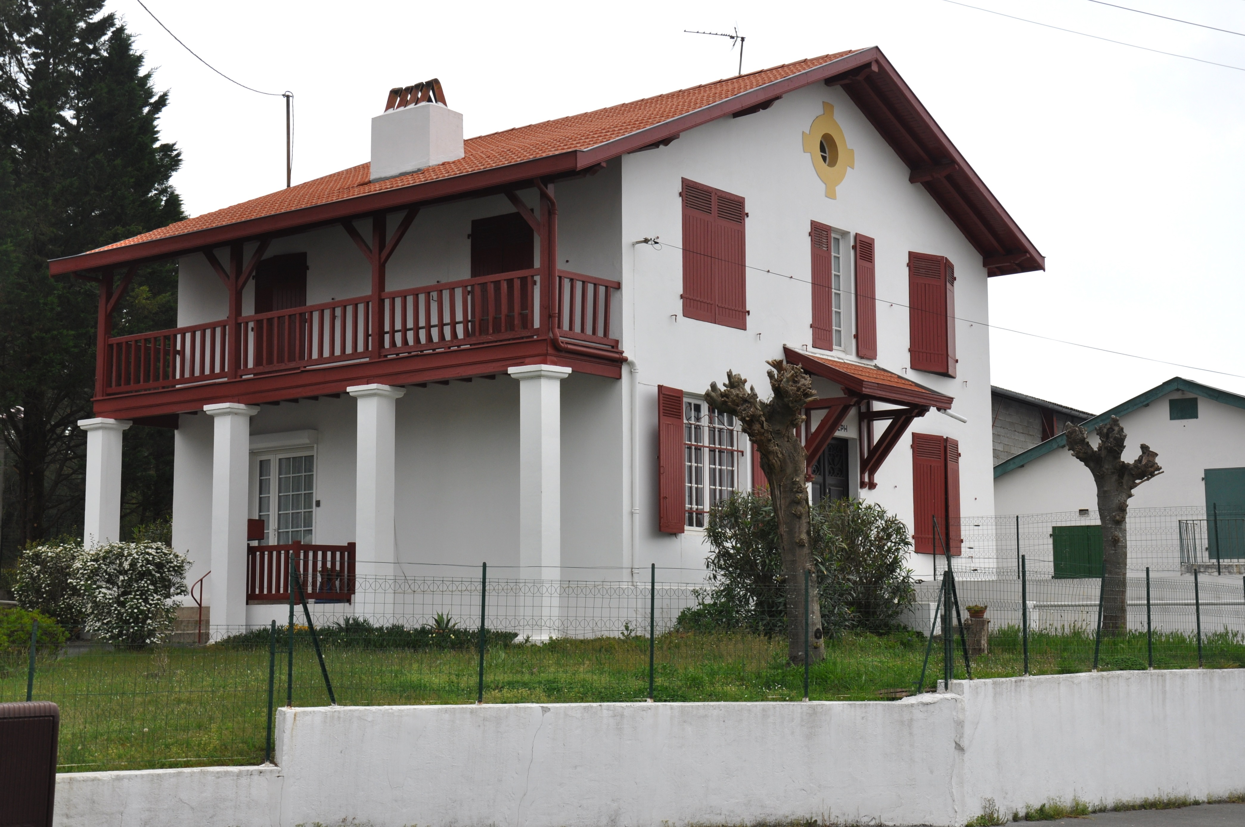 ANGLET BLANCPIGNON